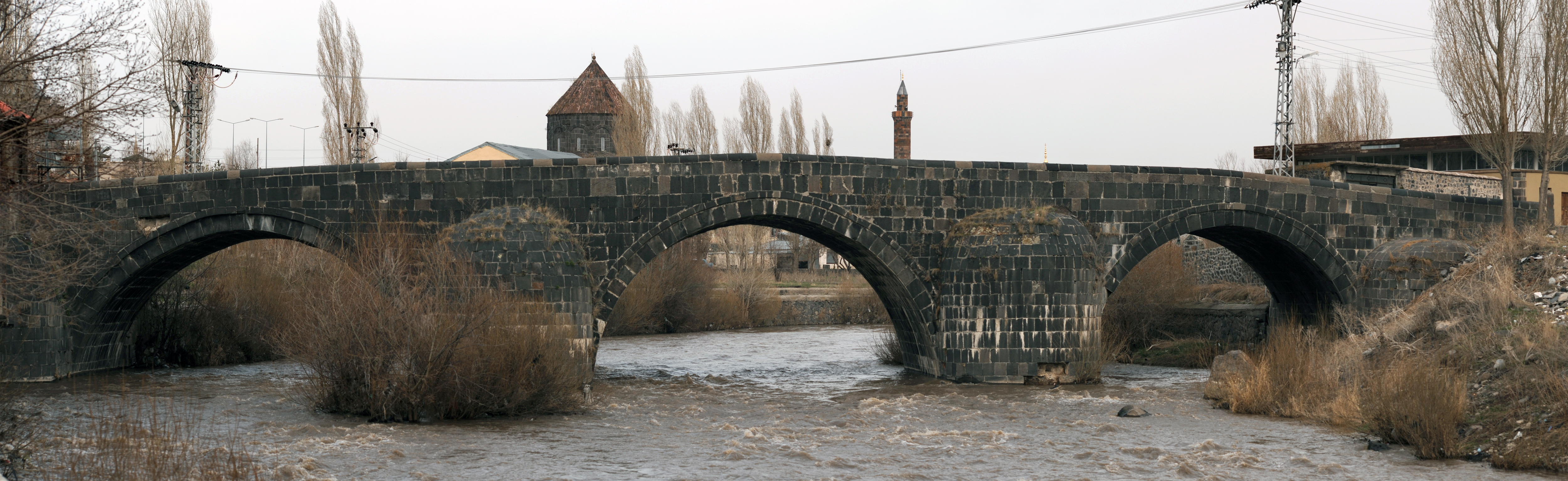 Tas Kopru bridge (1725), Kars, Turkey.